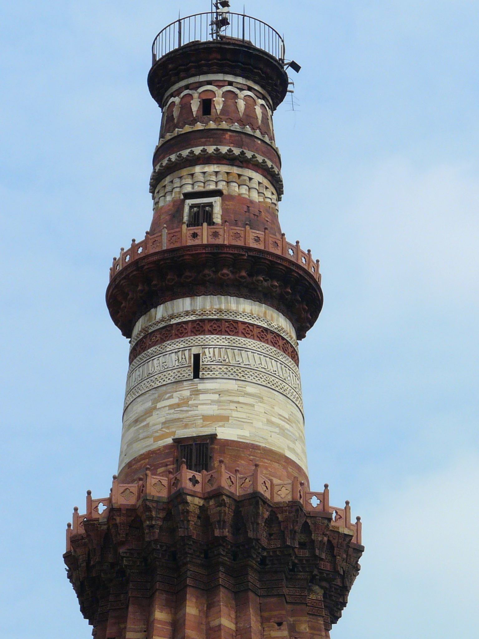 Upper floors of Qutb Minar, Delhi.